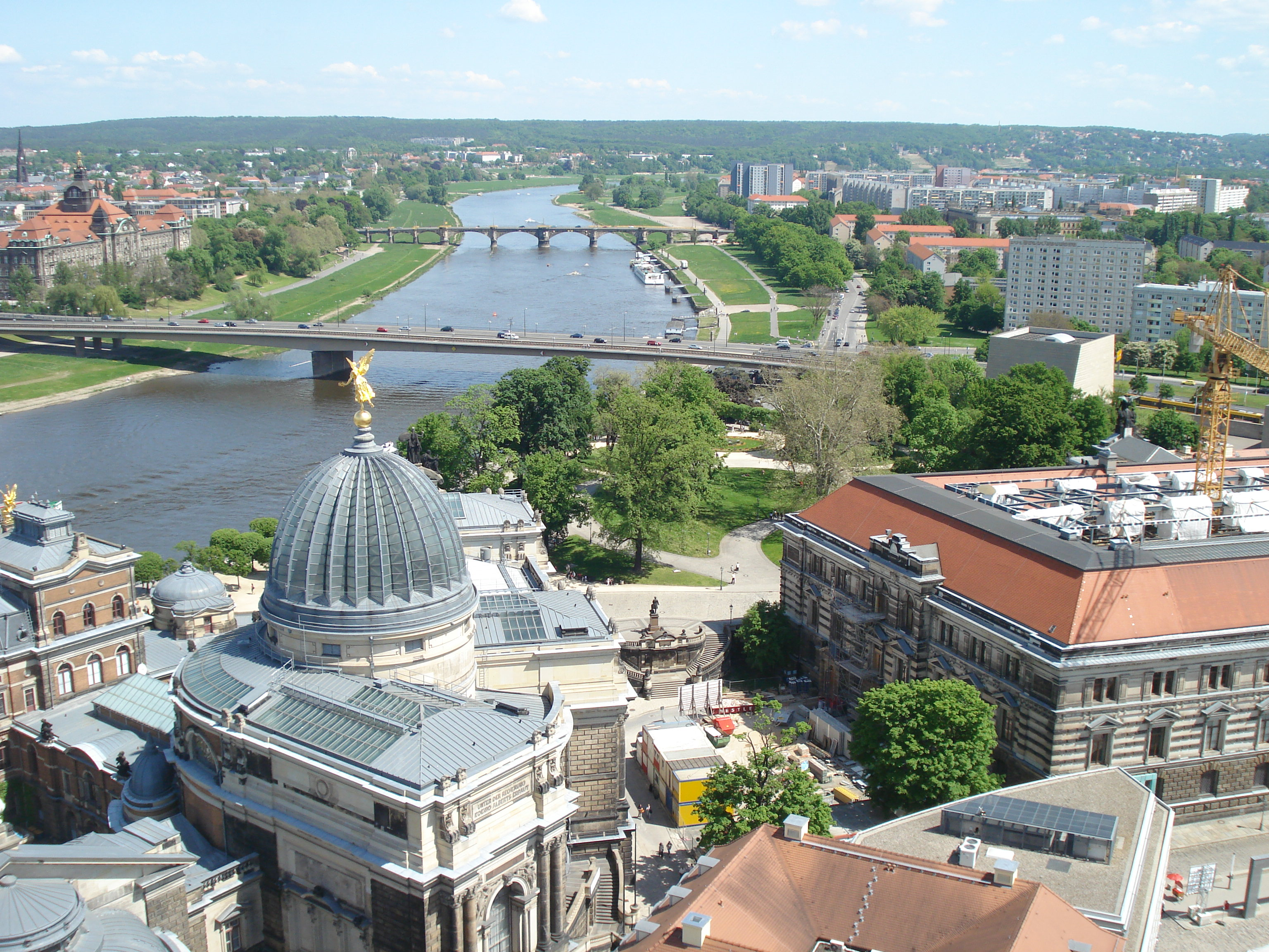 The terrain of Dresden